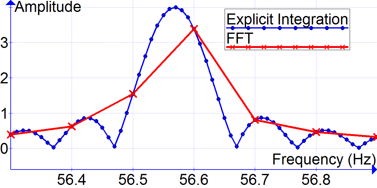 Zoomed in Discrete Fourier Transforms of five term cosine series. Frequencies are multiples of 10 times sqrt(2). Amplitudes are 1, 2, 3, 4, 5. Time window is 10 s. FFT is computed with FFTW3 . Explicit Integration DFT computed with . Note finer step size of explicit integral reproduces peak amplitude (4) and frequency (56.569 Hz) more accurately than FFT.